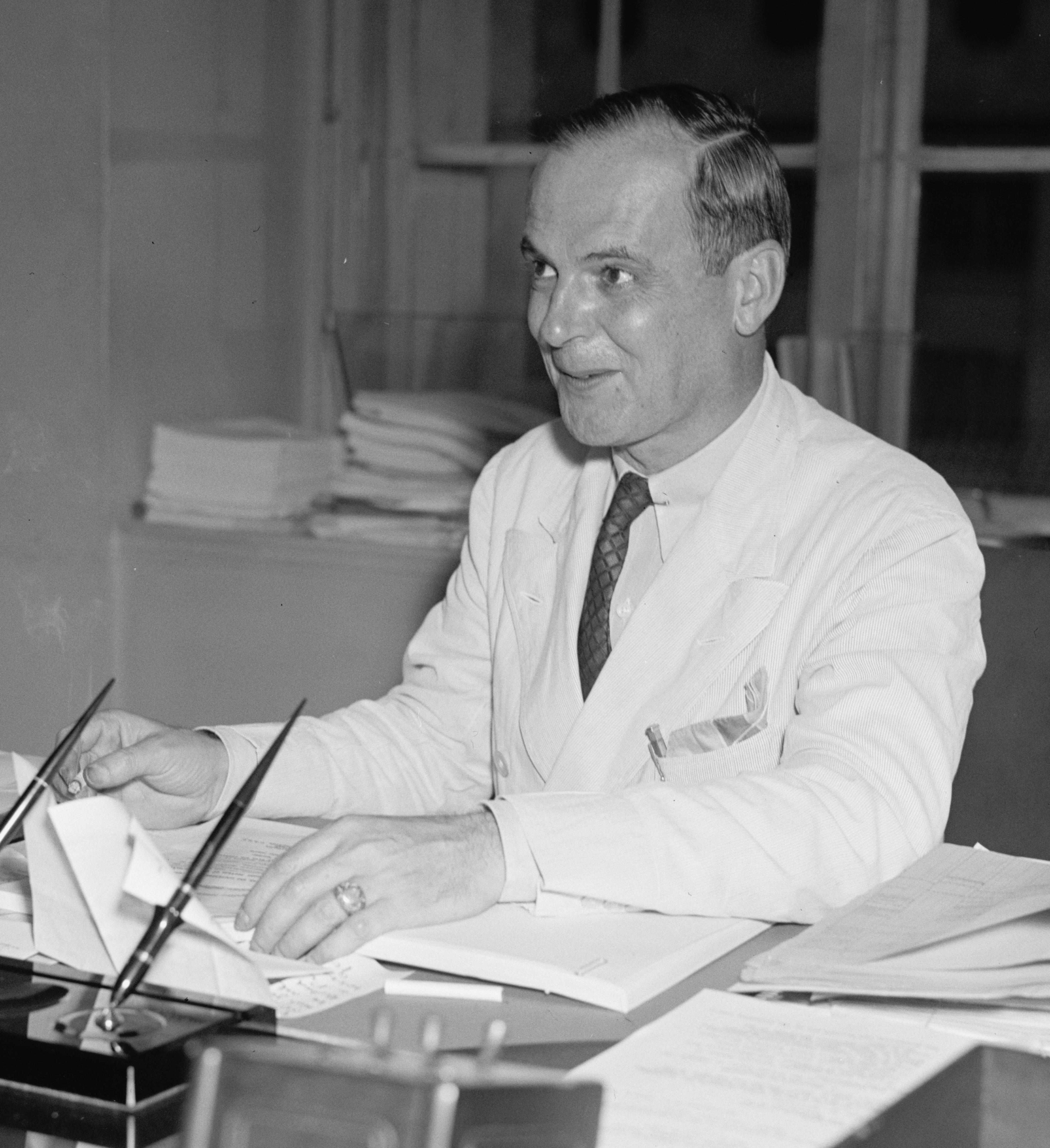 T.A.M. Craven, Chief Engineer of the Federal Communications Commission